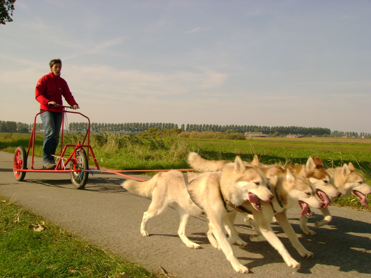 husky sleddog dogsledding chien traîneau schlittenhund hundeschlitten poolhond sledehond hondenslede safari tagestour wallis heidal vakantie reizen reisen noorwegen dogcart training husky-adventure husky-event husky-safari norway norvège skijöring ski-joering dogcart hundetrainungswagen hundewagen